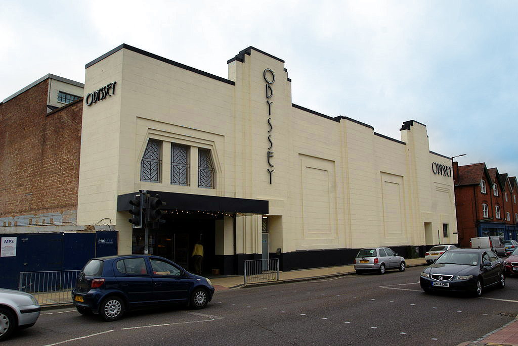 The Restored Odyssey Cinema